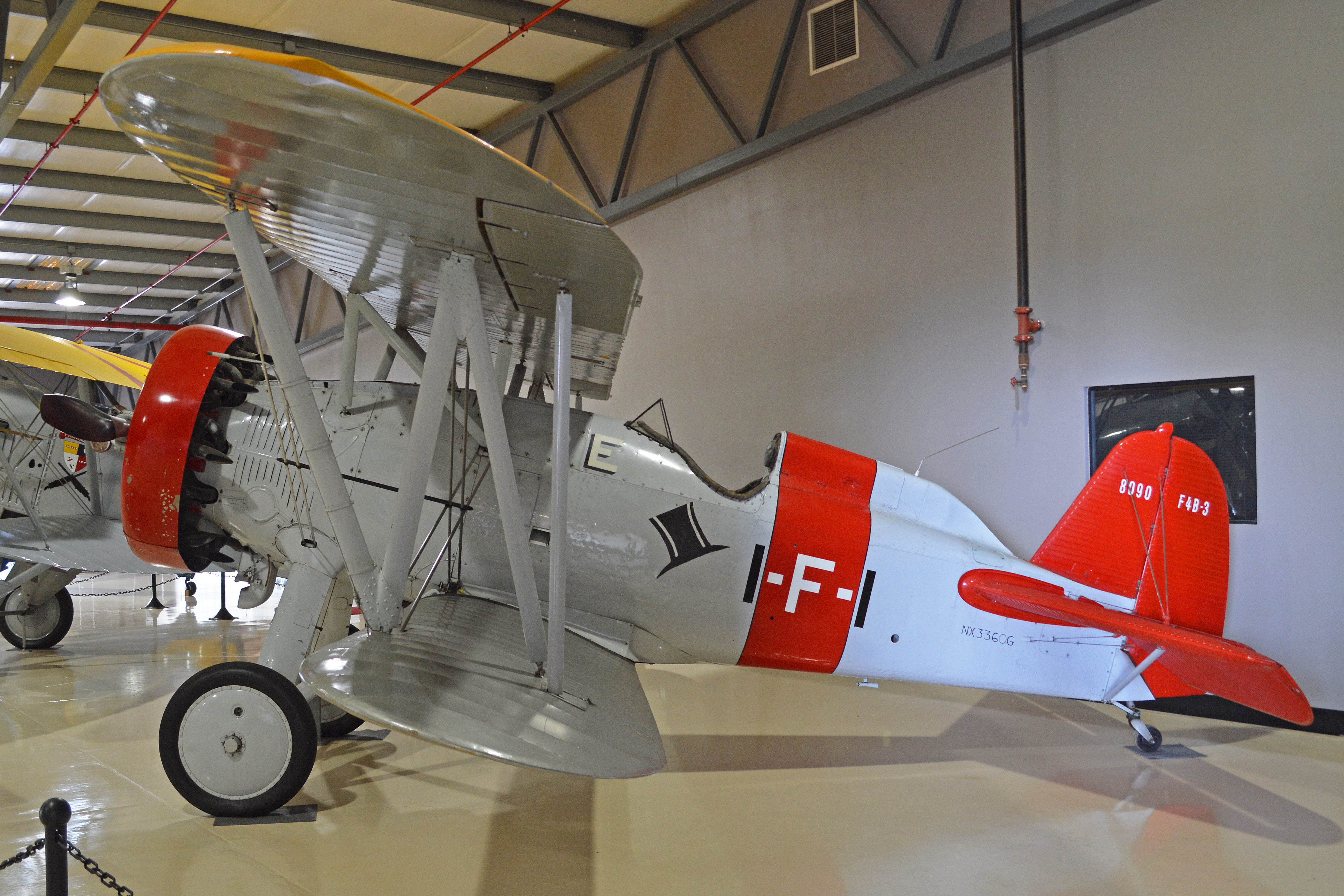 c/n 1512. US military serial 32-17. This is one of only seven survivors of the 586 P-12/F4B built. Although airworthy, it is not regularly flown. It is painted to represent a U.S.Navy F4B-3 of VF-1B ‘High Hats’. Quite why this is more exciting than a genuine US Army scheme, I have no idea! On display in the Maloney hangar at the Planes of Fame Museum, Chino, California, USA. 28-2-2016